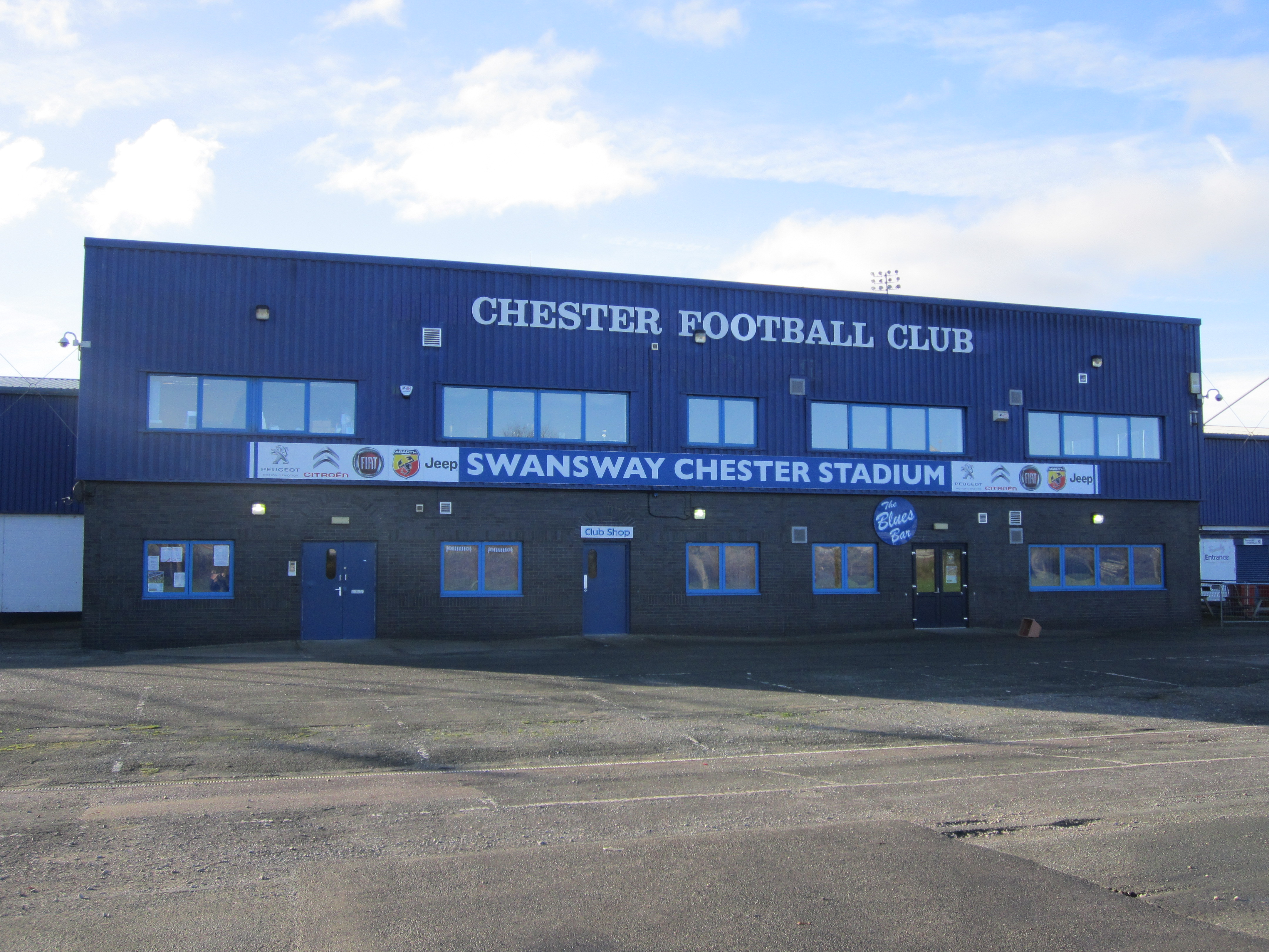 Deva Stadium, home of Chester F.C. on the English/Welsh border.